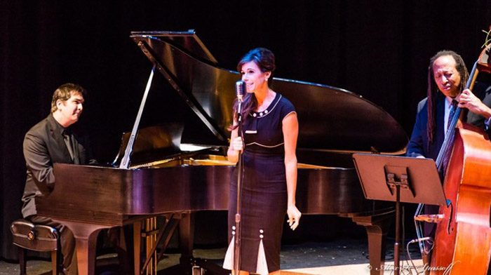 Lisa Casalino performing at Ybor Jazz Festival for Hillsborough County Community College in Ybor City, Tampa, Florida, Fall 2012.